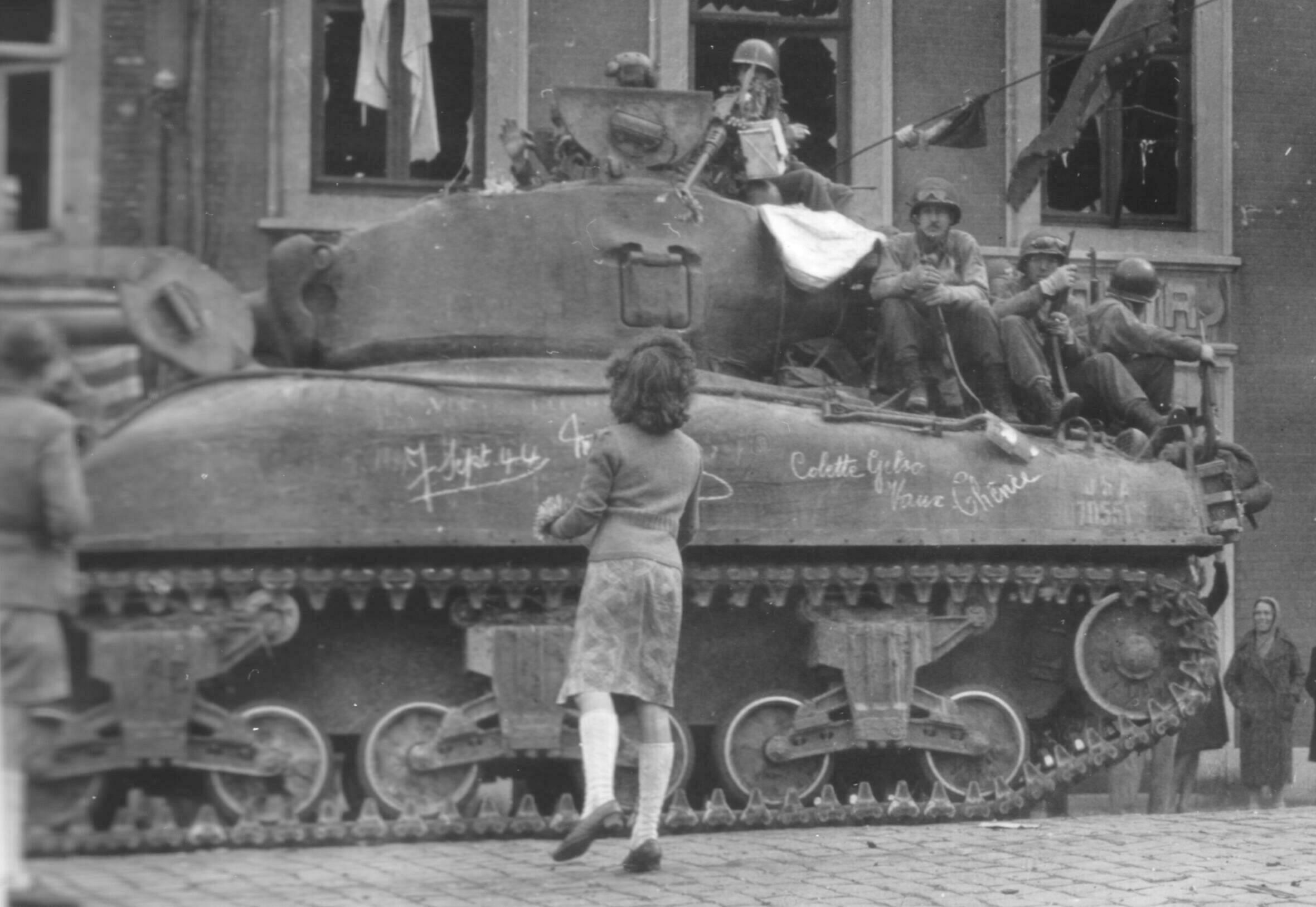 USA 3070551, Early M4A1(76) Sherman tank of the 3rd Armored Division in Chêné, Belgium, September 8, 1944